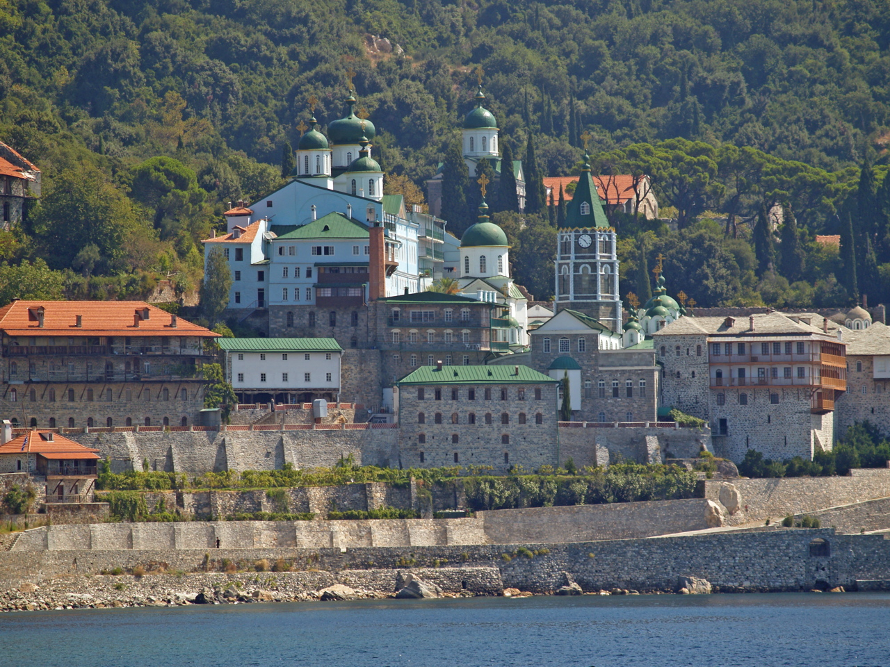 Russian President Putin was paying a visit to St. Panteleimon Monastery, the Russian Orthodox monastery as we were leaving